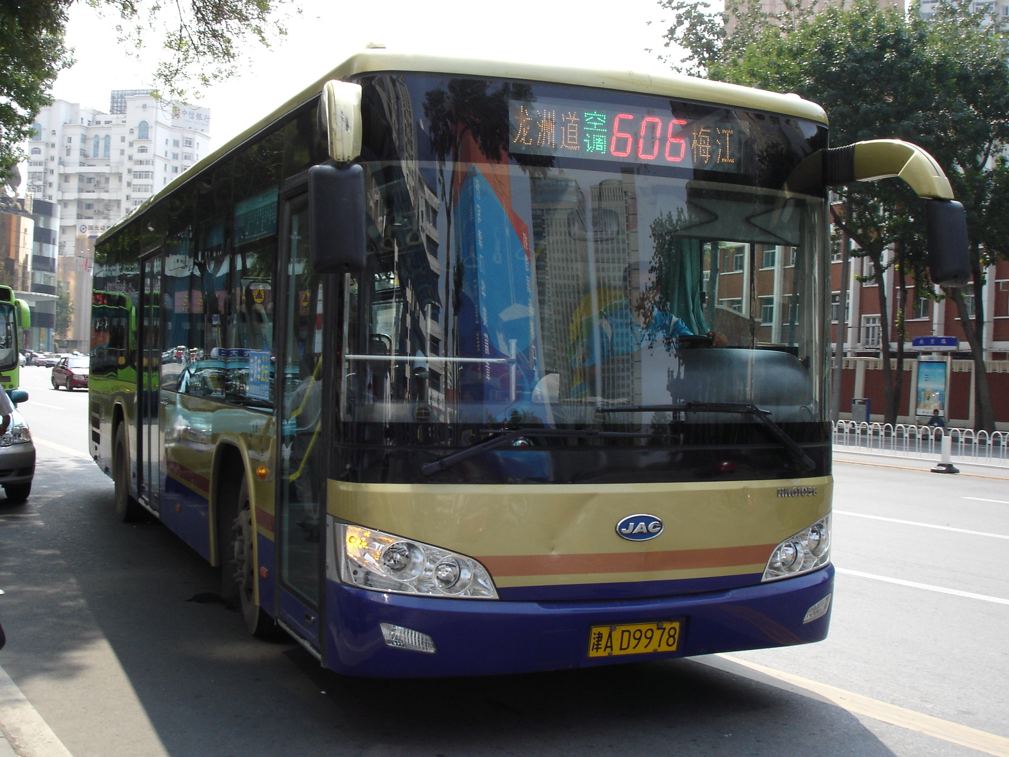 JAC Bus model HK6105G